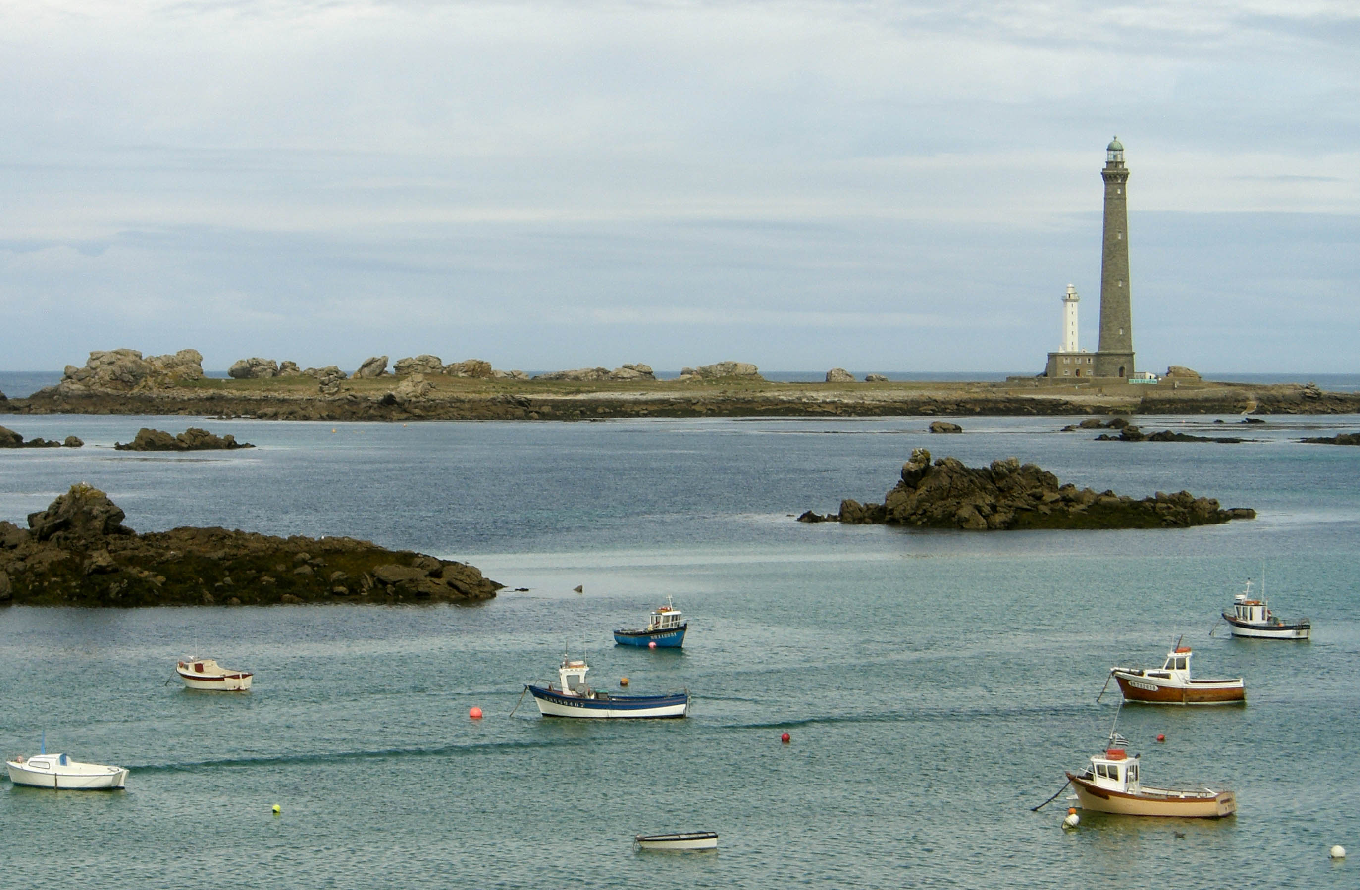 Plouguerneau, Île Vierge, France, the lighthouses